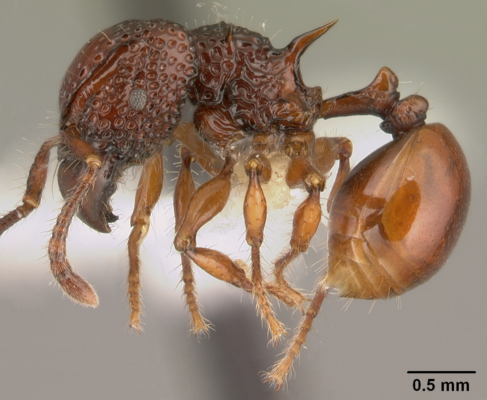 Profile view of ant Acanthomyrmex concavus specimen casent0101061.